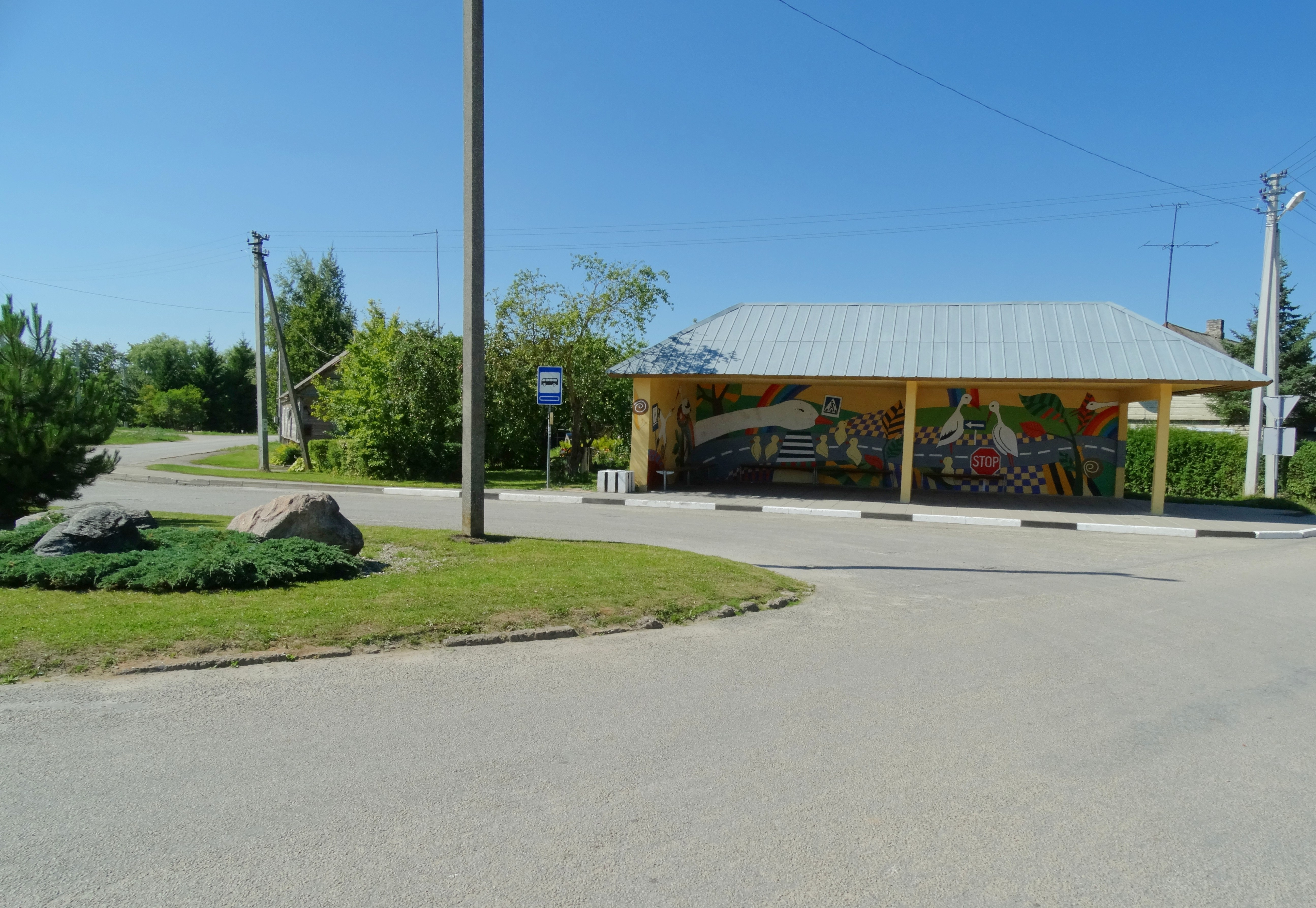 Kriukai, Joniškis District, Lithuania